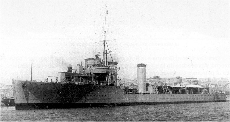 Destroyer Gravina (G), Churruca I class (1931)